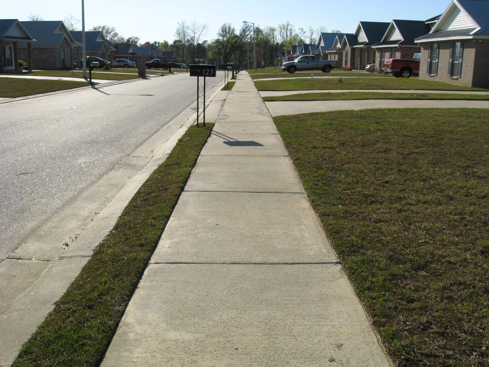 Teddy Lane in Picayune, MS